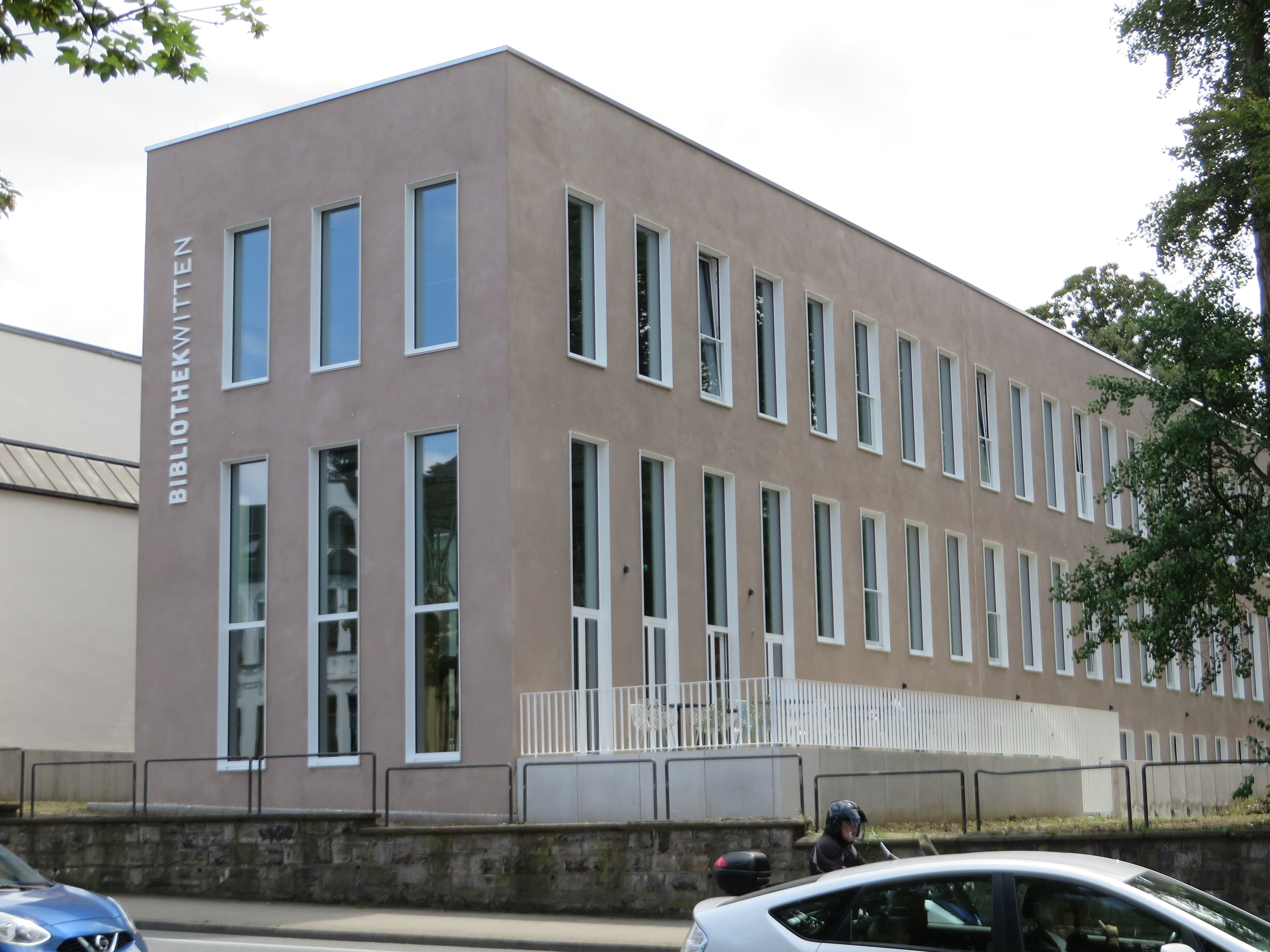 library in Witten, Germany